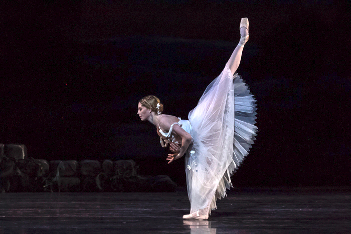 Kansas City Ballet Dancer Molly Wagner. Photographer Steve Wilson.